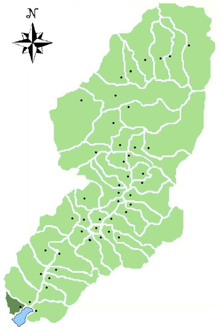 Map of the Comune di Lovere, Valle Camonica